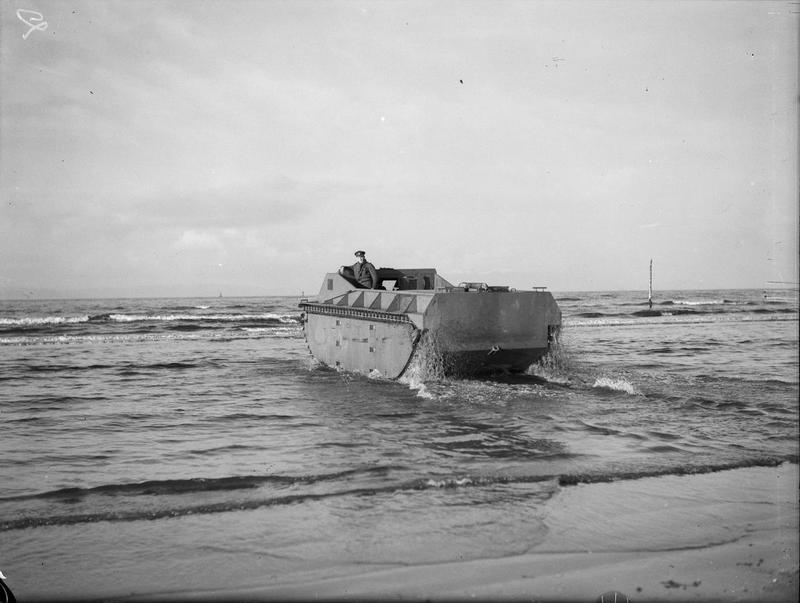 The Alligator Amphibious Tank. 4 February 1943, Combined Operations Scholl, Dundonald Camp. The Alligator Amphibious Tank entering the sea during practice.